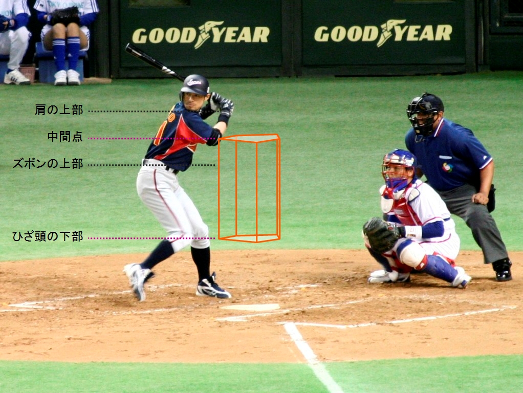 Explanation of strike zone